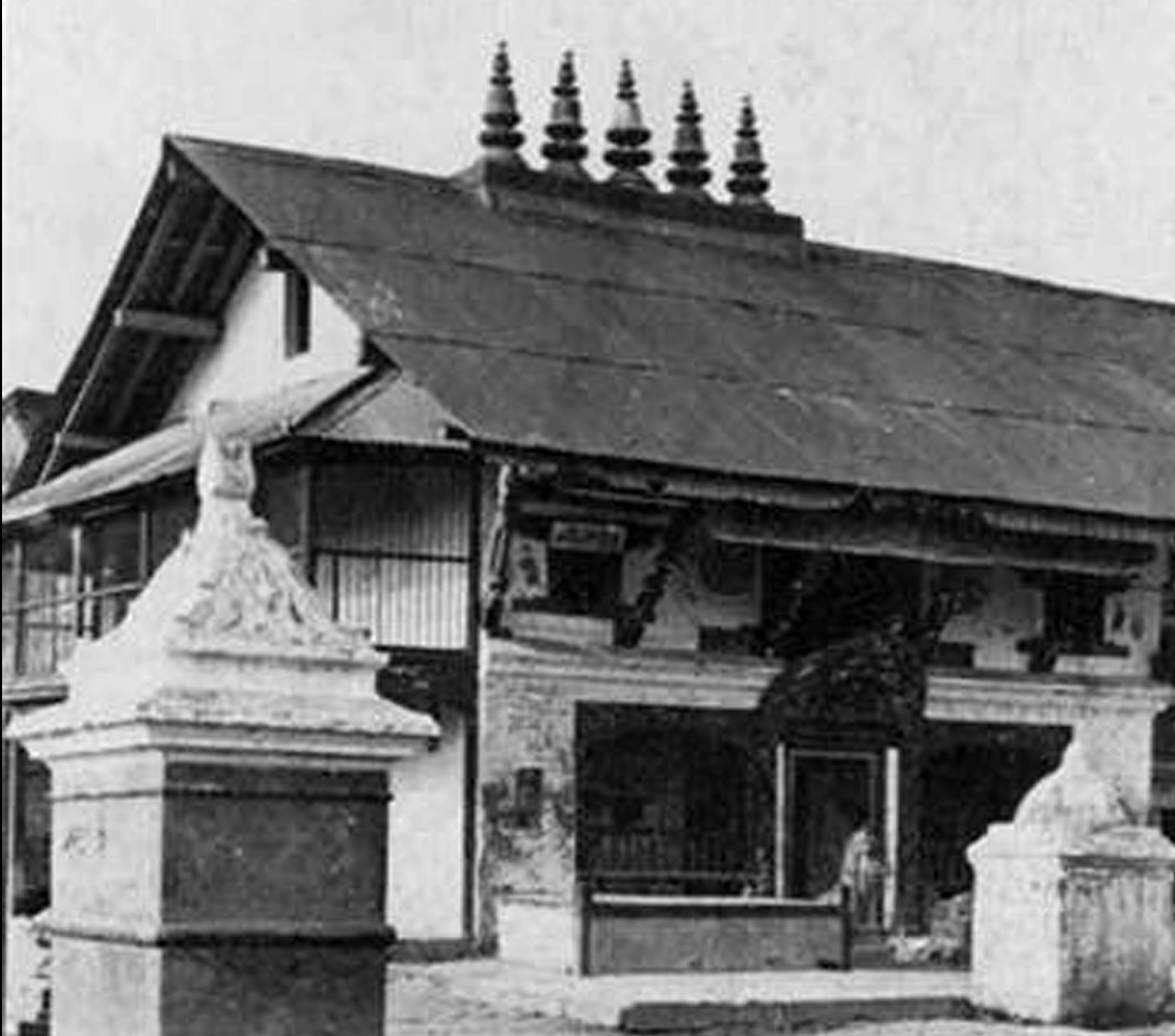 Old Photo of Sankata Temple